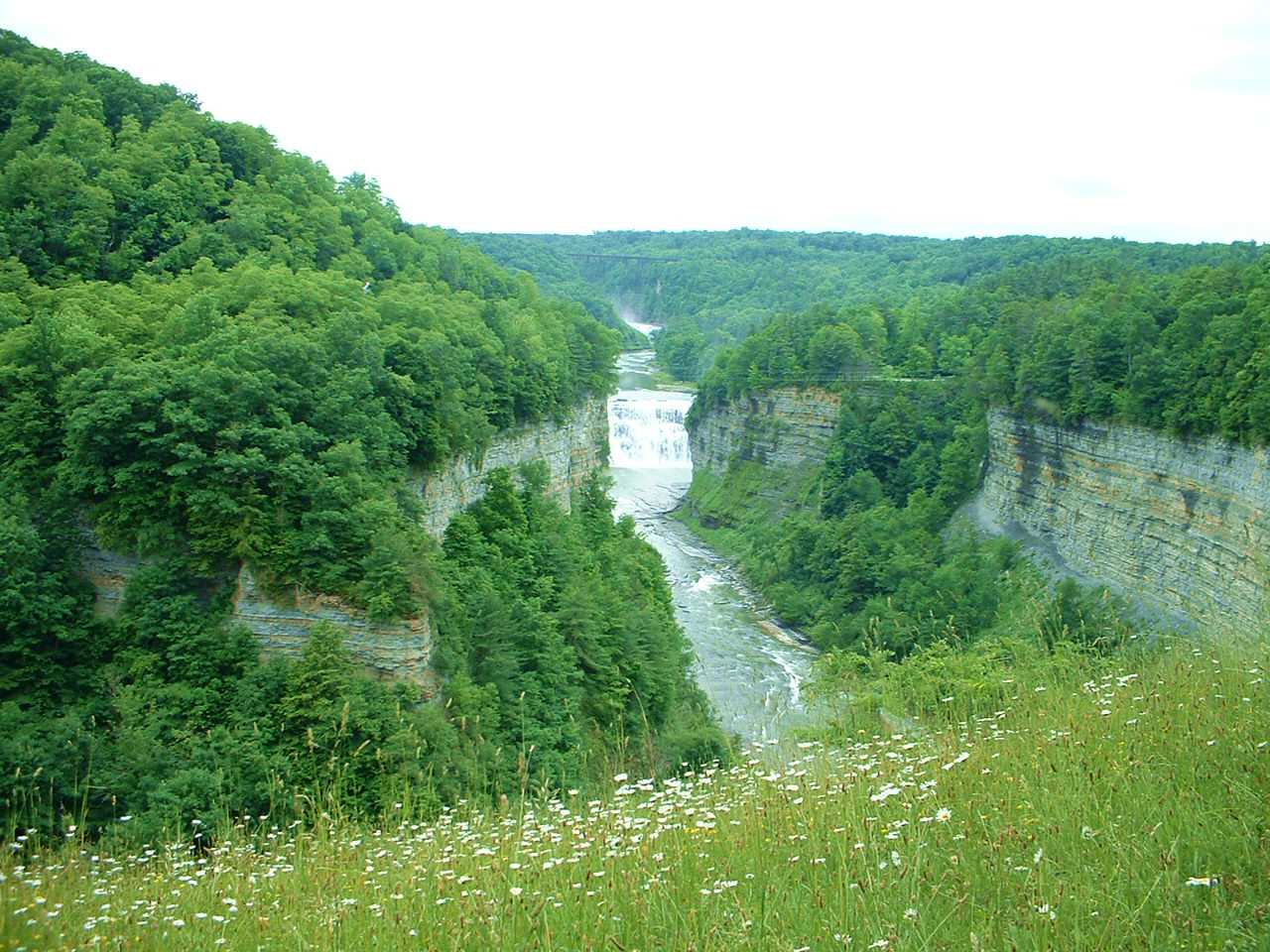 Letchworth State Park in Upstate New York, 19. Juni 2005